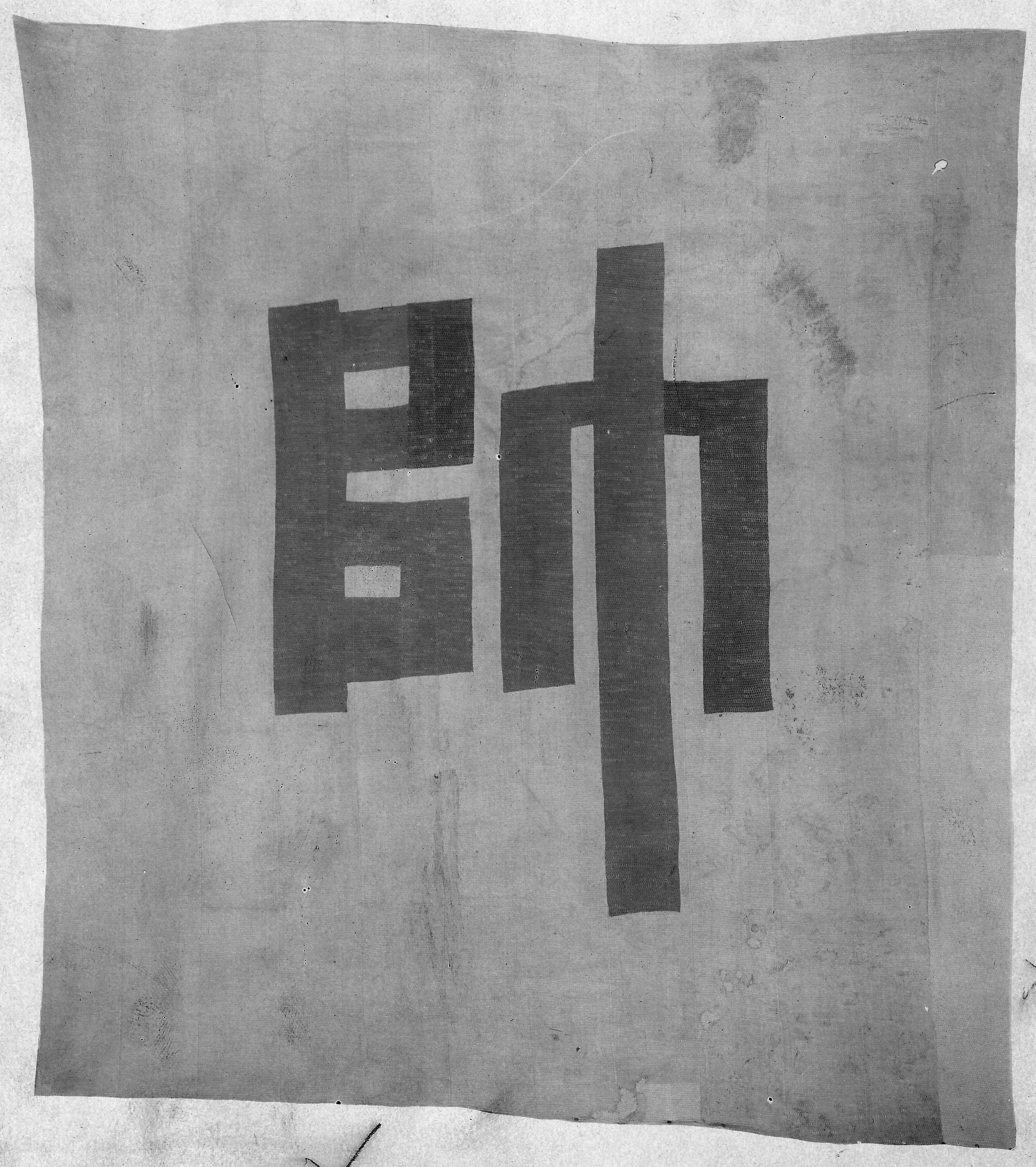 The flag of the Korean Commander-in-Chief at Kang Hoa, Korea, June 11, 1871. Captured under fire, during the attacks on the Korean forts, by Privates Purvis and Brown of the detachment of Marines under Captain Tilton. This detachment was part of the landing force of from the squadron of Rear Admiral John Rodgers. This flag is in the Naval Academy Collection. (Courtesy of the U.S. Naval Academy)